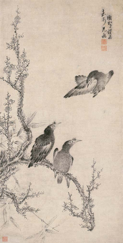 Peach Blossoms and Birds